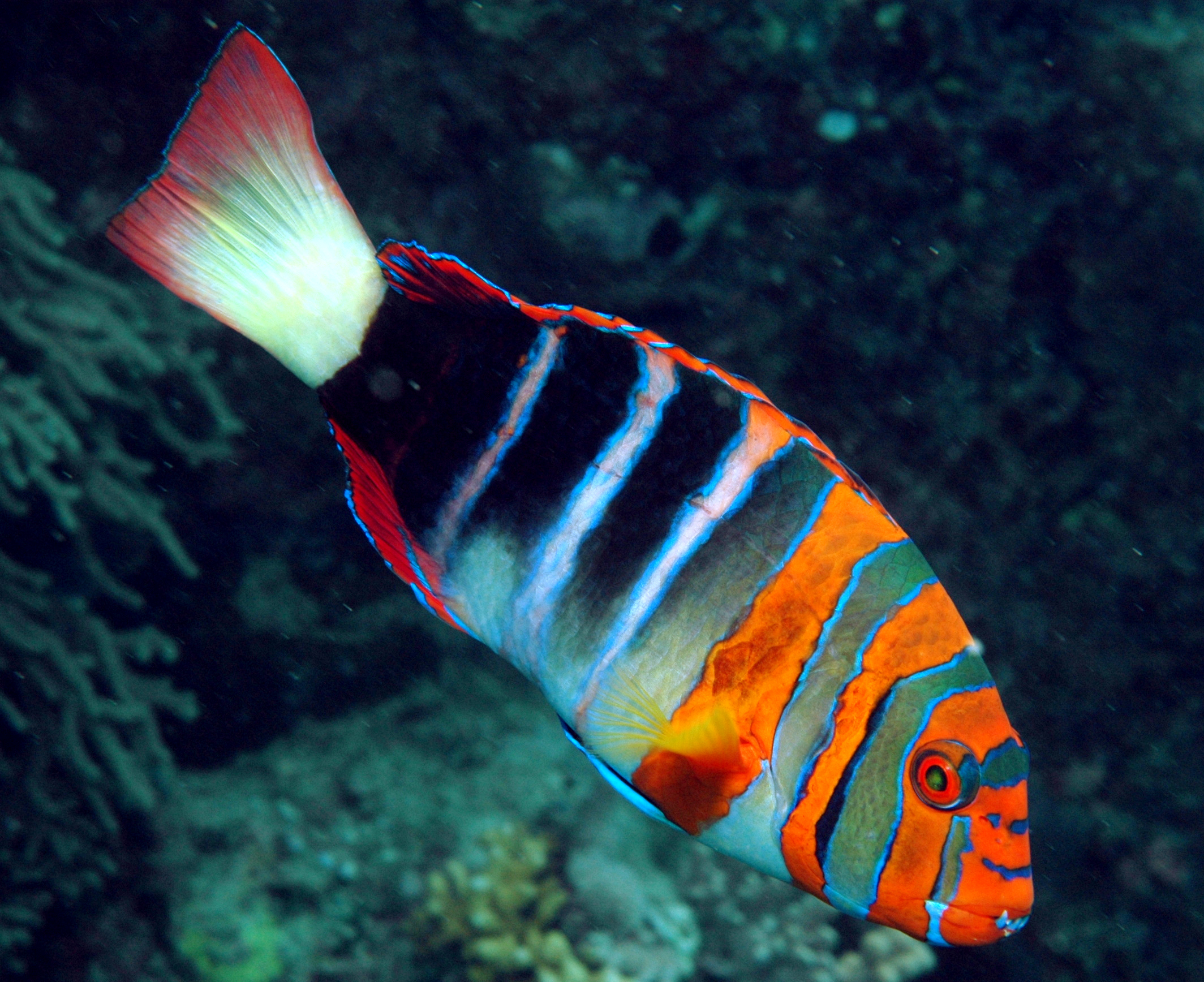 Choerodon fasciatusGreat Barrier Reef, Cairns, Australia